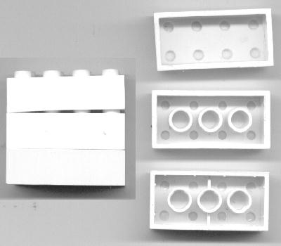 Scanned blocks of LEGO